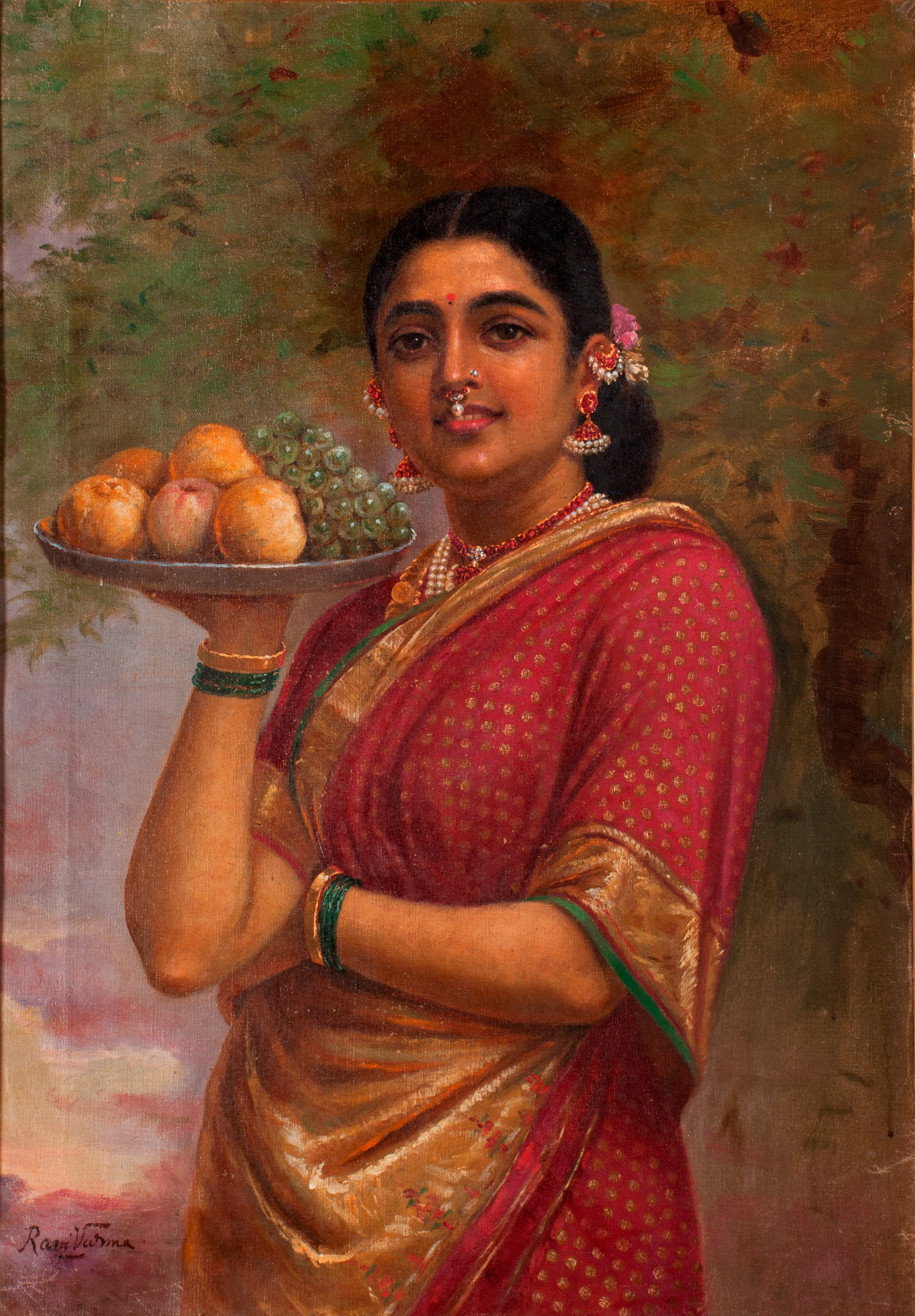 Portrait of a lady from Maharashtra, holding a plate full of fruits.